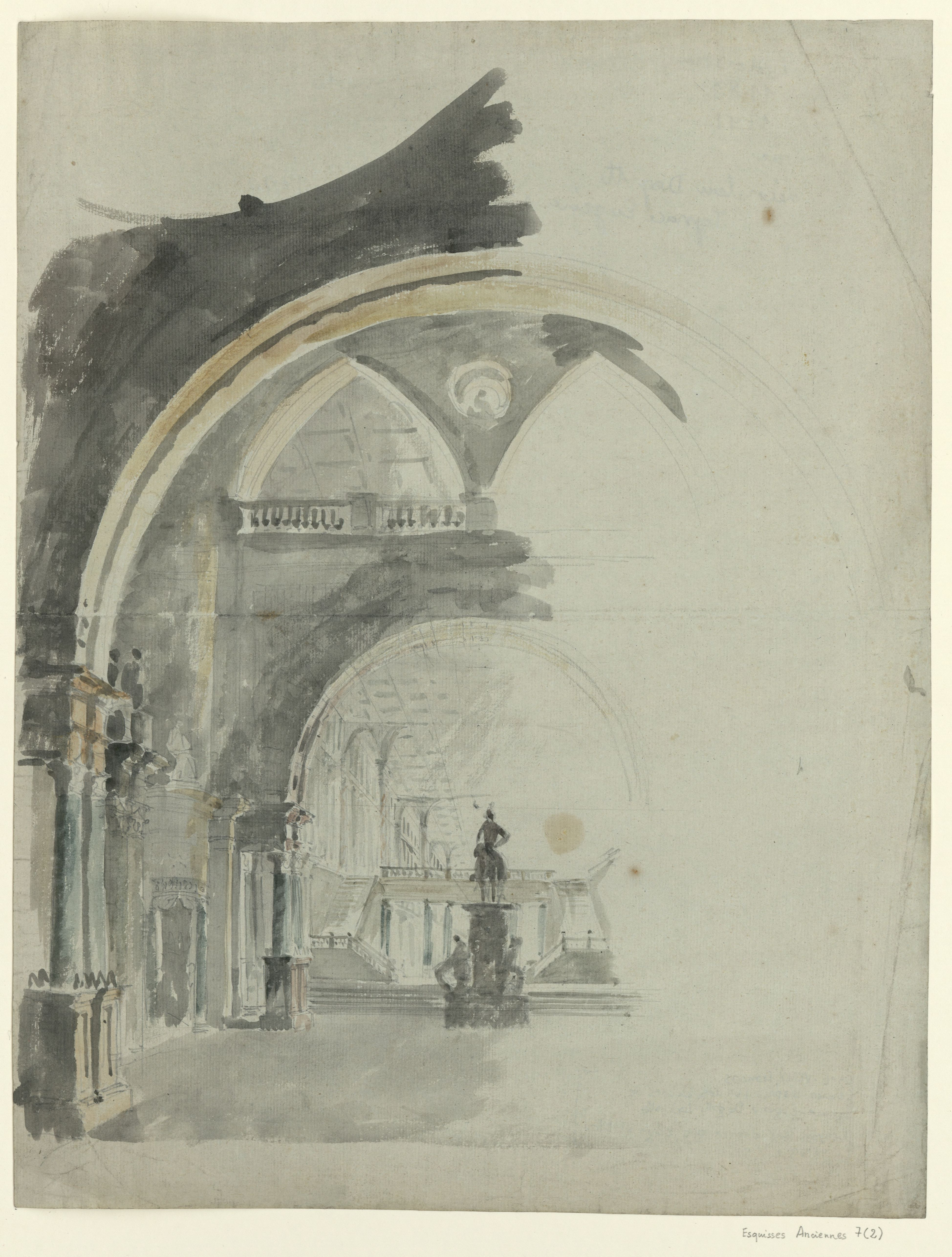 An Antic Gallery - Sketch for the decor of the second act, opera "Lodoïska" by Cherubini, first performed at the Théâtre Feydeau in Paris on 18 July 1791. Sketch by François Verly, after Ignazio Degotti